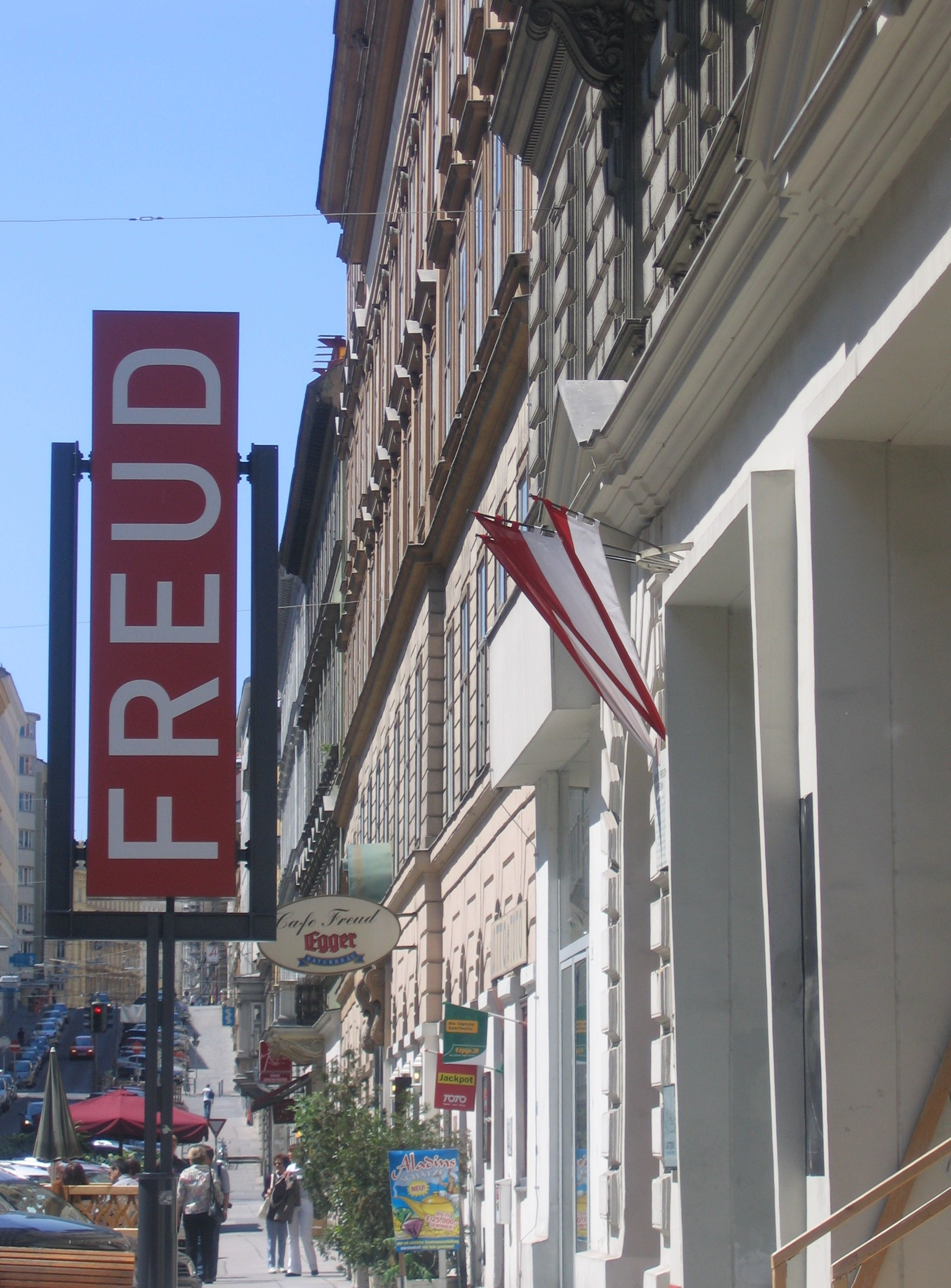 Signboard of Freud Museum, Berggasse, Vienna